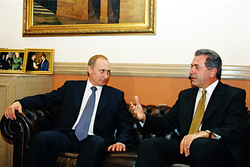 ATHENS. President Putin with Dimitris Avramopoulos, Mayor of Athens.